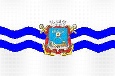 Today's flag of Nikolaev, approved by City Council in 1999